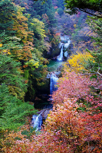 Jinja falls (Ojirogawa ravine, Yamanashi, Japan)